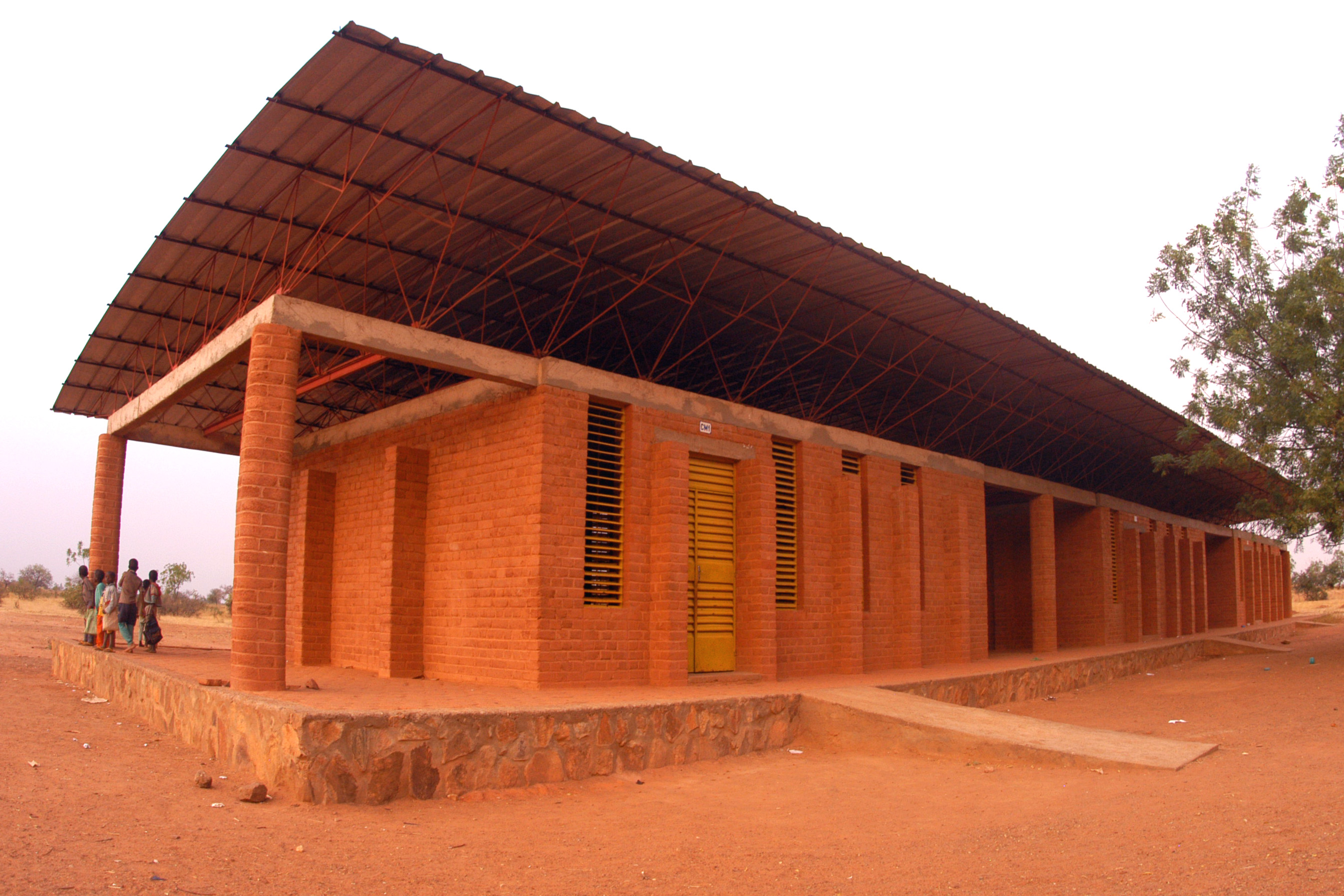 Primary School in Gando, Burkina Faso, that won the Aga Khan Award for Architecture. Built by Francis Kere.